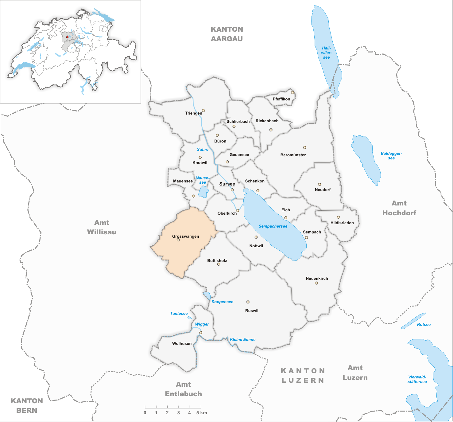 Municipality Grosswangen